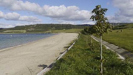 Beach of As Pontes